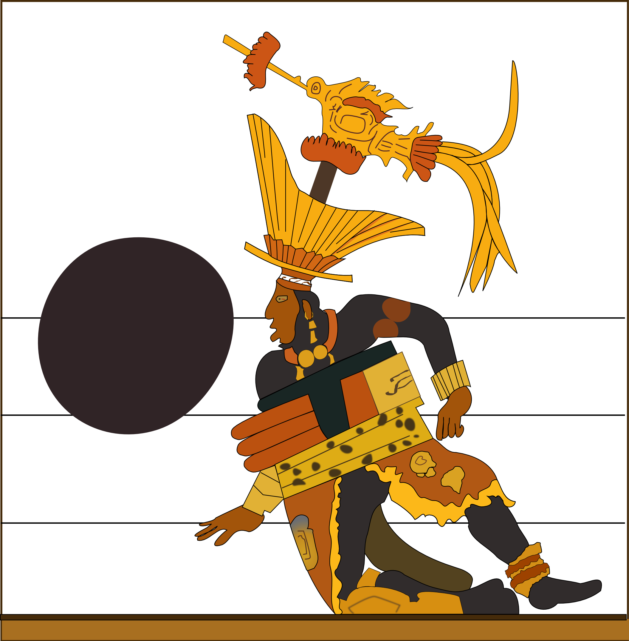 Colored drawing of one of the four figures on a Maya cylindrical vase, now in the Dallas Museum of Art. The colors are an attempt to match the basic colors of the vase, although the colors on the vase are much more complex. The vase is from the Maya Central lowlands, 650 - 800 AD. According to David Stuart, the vase shows a ballgame between the kings of El Pajaral and Motul de San José. It is this latter king, Lord Sak Ch’een of Motul de San Jose, who is shown in this drawing.[1] It has been proposed that the vase was created by the king of El Pajaral to commemorate the visit of Lord Sak Ch’een of Motul de San Jose.[2] The well-dressed player (the proposed king) is wearing a large yoke, painted deerskin hip guards, either fringed or "trimmed with feathers"[3] and an extremely elaborate headdress. He is dropping onto his knee(pad) to strike the ball, which is "exaggerated to huge proportions".[4]